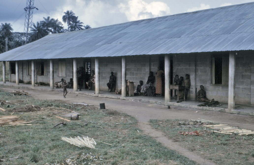 This 1968 photograph showed the outside of a typical refugee hospital or camp during the Nigerian-Biafran civil war. In 1967, during the Nigerian-Biafran civil war, the CDC assisted in delivering food to the refugees. However, due to a lack of international help, health officials could not get enough food to everyone, so they relied on a high protein distribution effort, i.e., dried fish, dried milk, etc., that was supplemented with locally-grown carbohydrates such as yams, and cassava (manioc) melons. Dr. Lyle Conrad and Dr. William H. Foege established a standard for height and weight for the Nigerian children, which before that time did not exist.